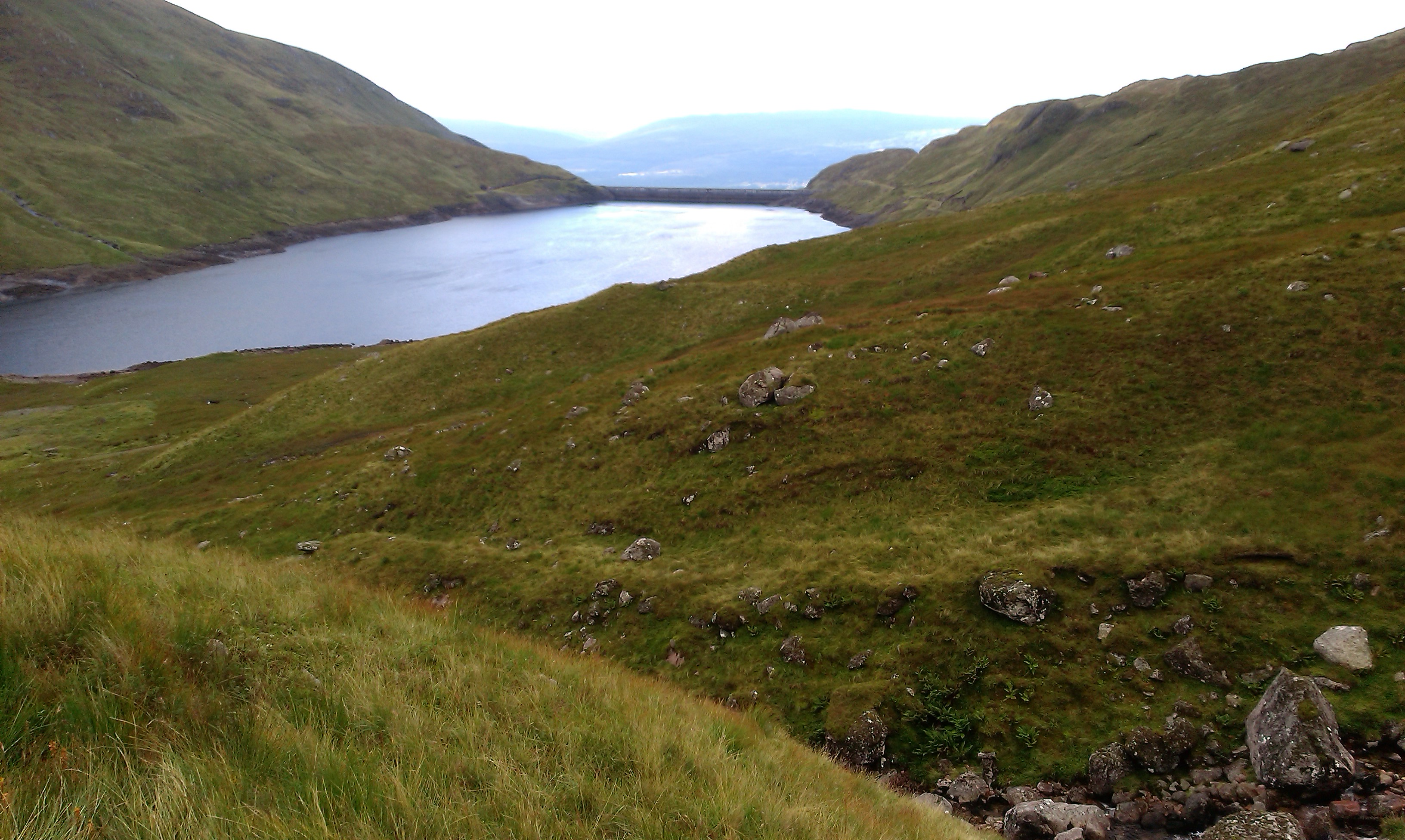 The Cruachan Reservoir seen from Coire Dearg.